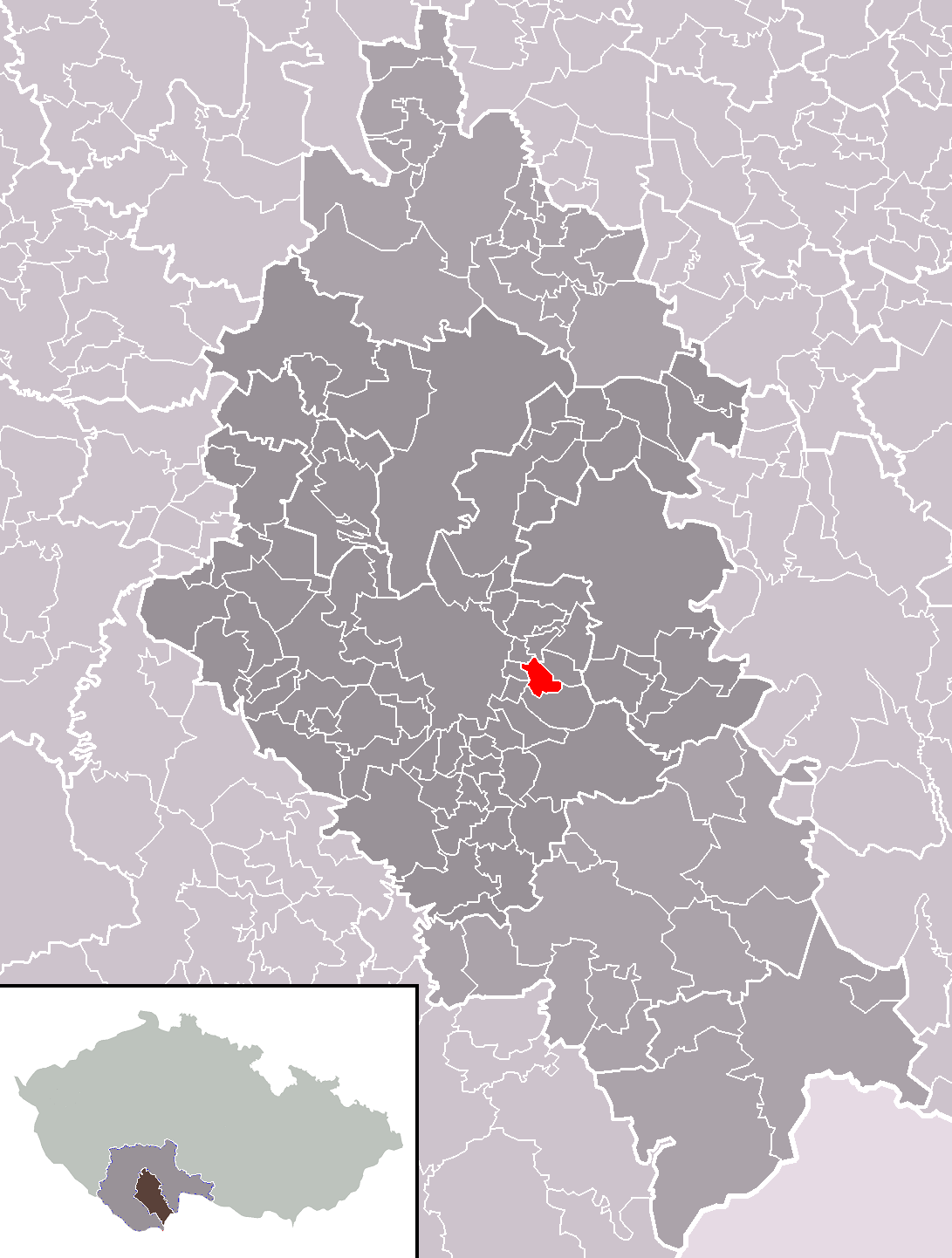 Location of Dubičné municipality within České Budějovice District and administrative area of České Budějovice as a Municipality with Extended Competence.